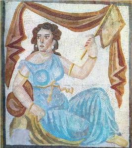 An Iranian noblewoman as depicted by Roman craftsmen captured by Shapur I.